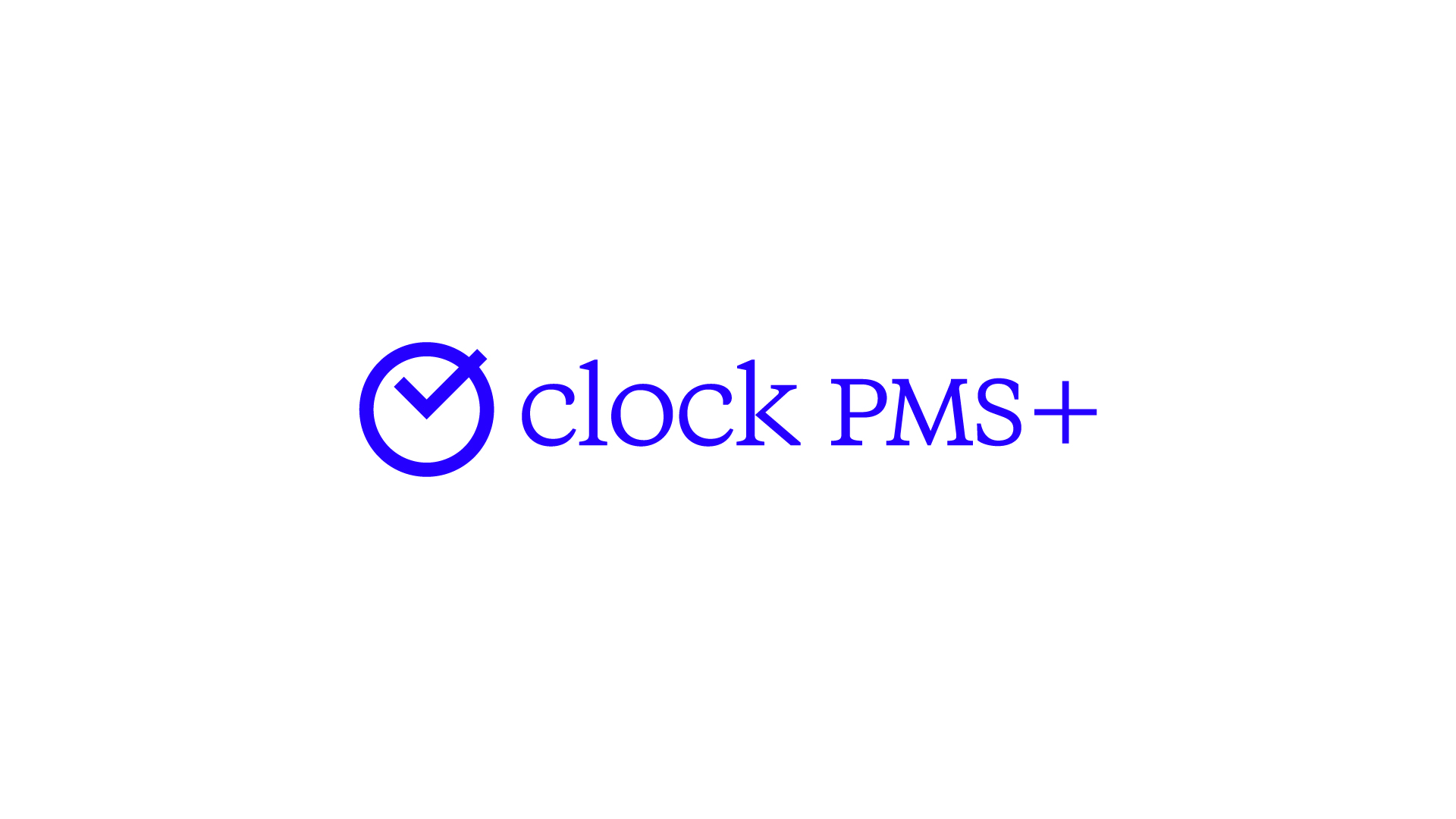 Clock Software is a private limited company developing software and hardware solutions for the hospitality industry.